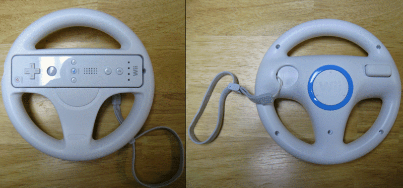 Front and back view of the Wii Wheel included with Mario Kart Wii.